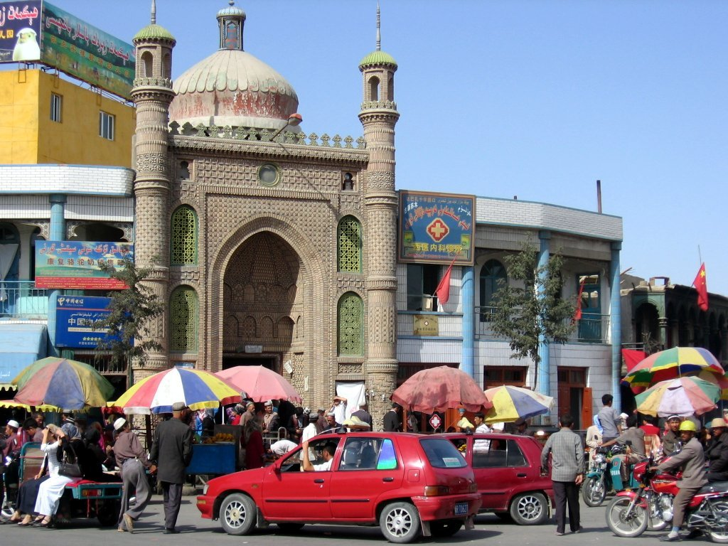 Khotan (Hotan / Hetian) is an oasis city in the Xinjiang Uygur Autonomous Region of the People's Republic of China. Mosque.